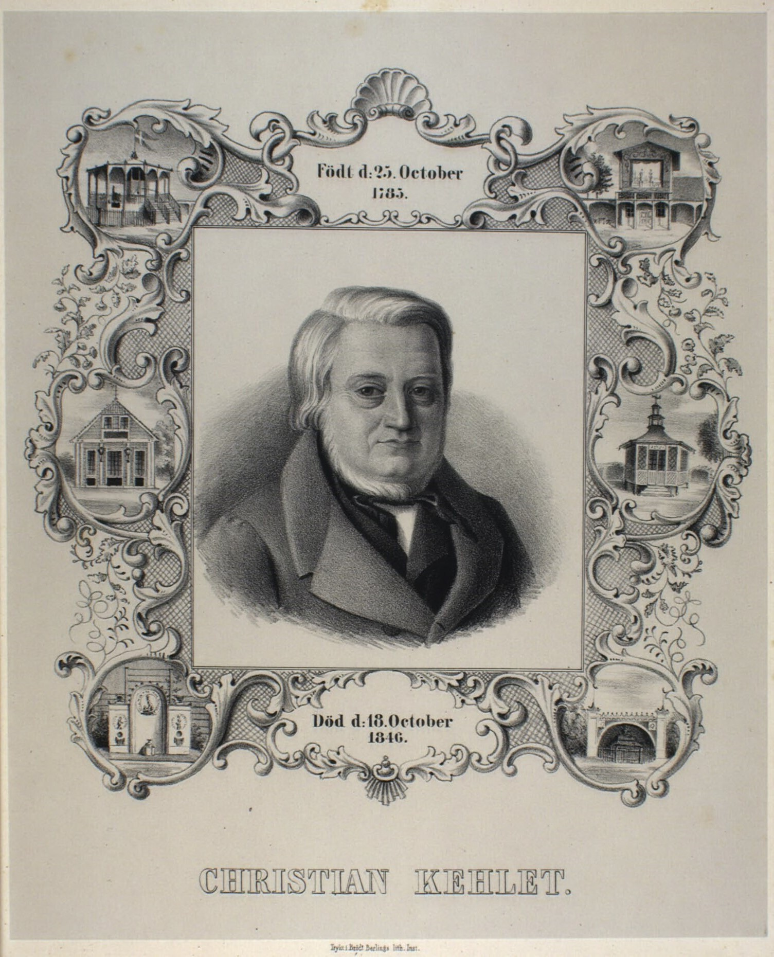 Christian Kehlet (1785-1846) (3), founder of the chocolate company Christian F. Kehlet